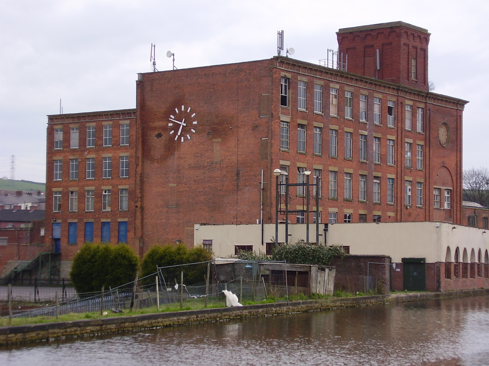 Albion Mill - disused textile mill near Ewood in Blackburn